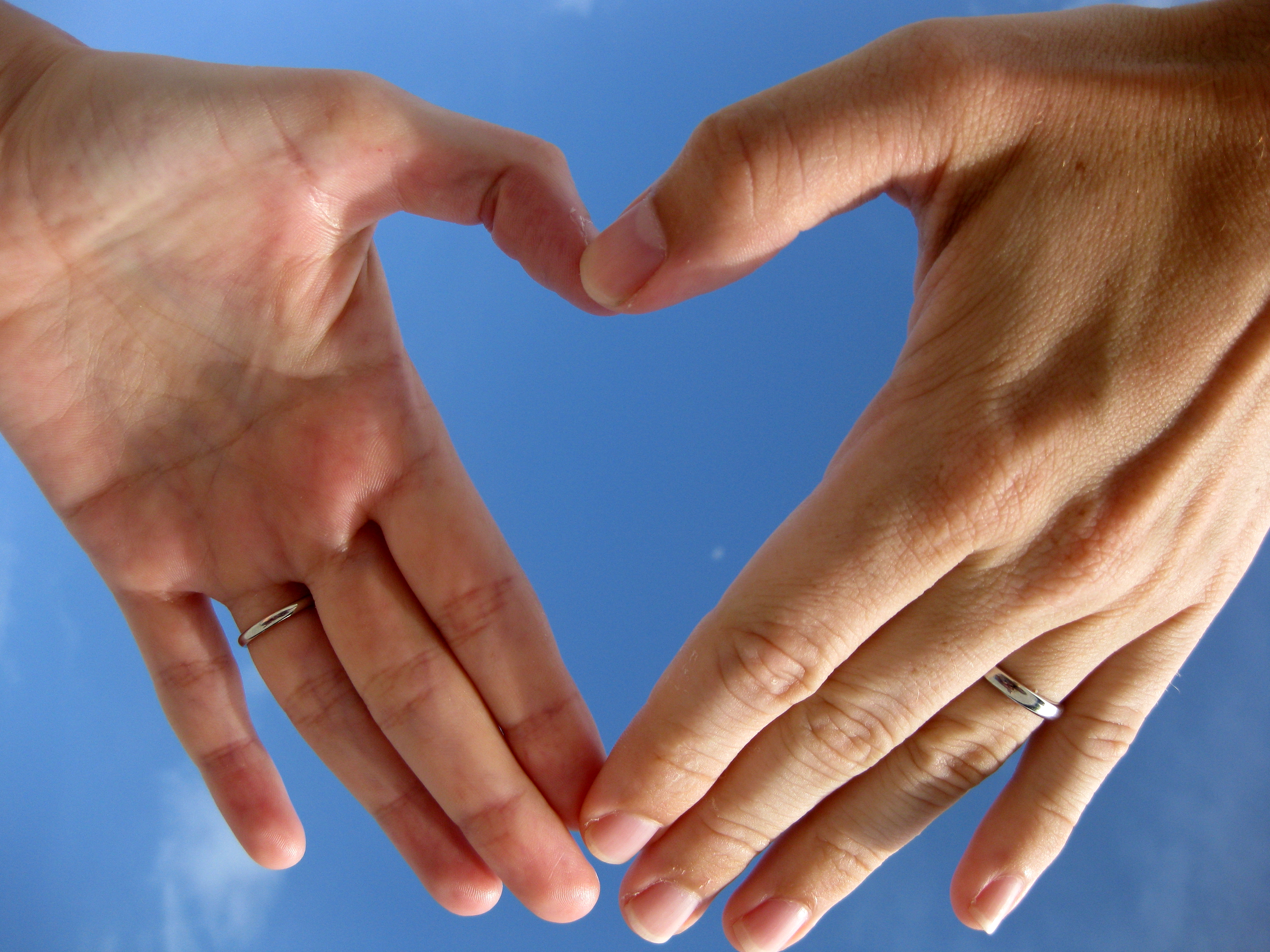 Two left hands forming an outline of a heart shape against a blue sky. Both hands are wearing a similar wedding ring.